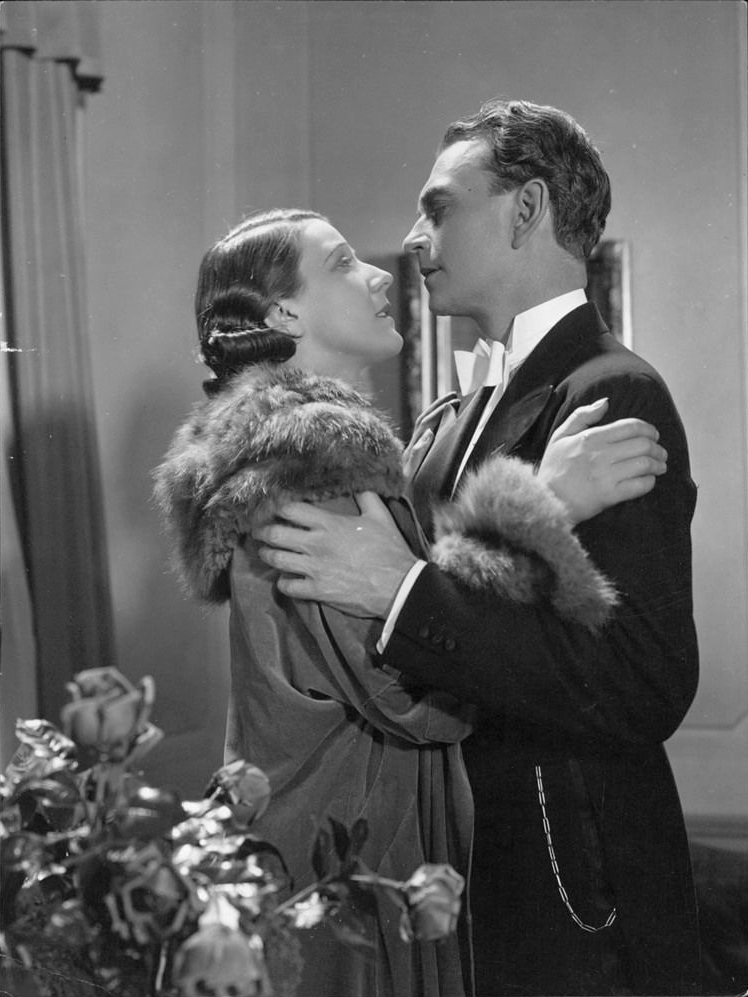 A scene from the film Svarta rosor (